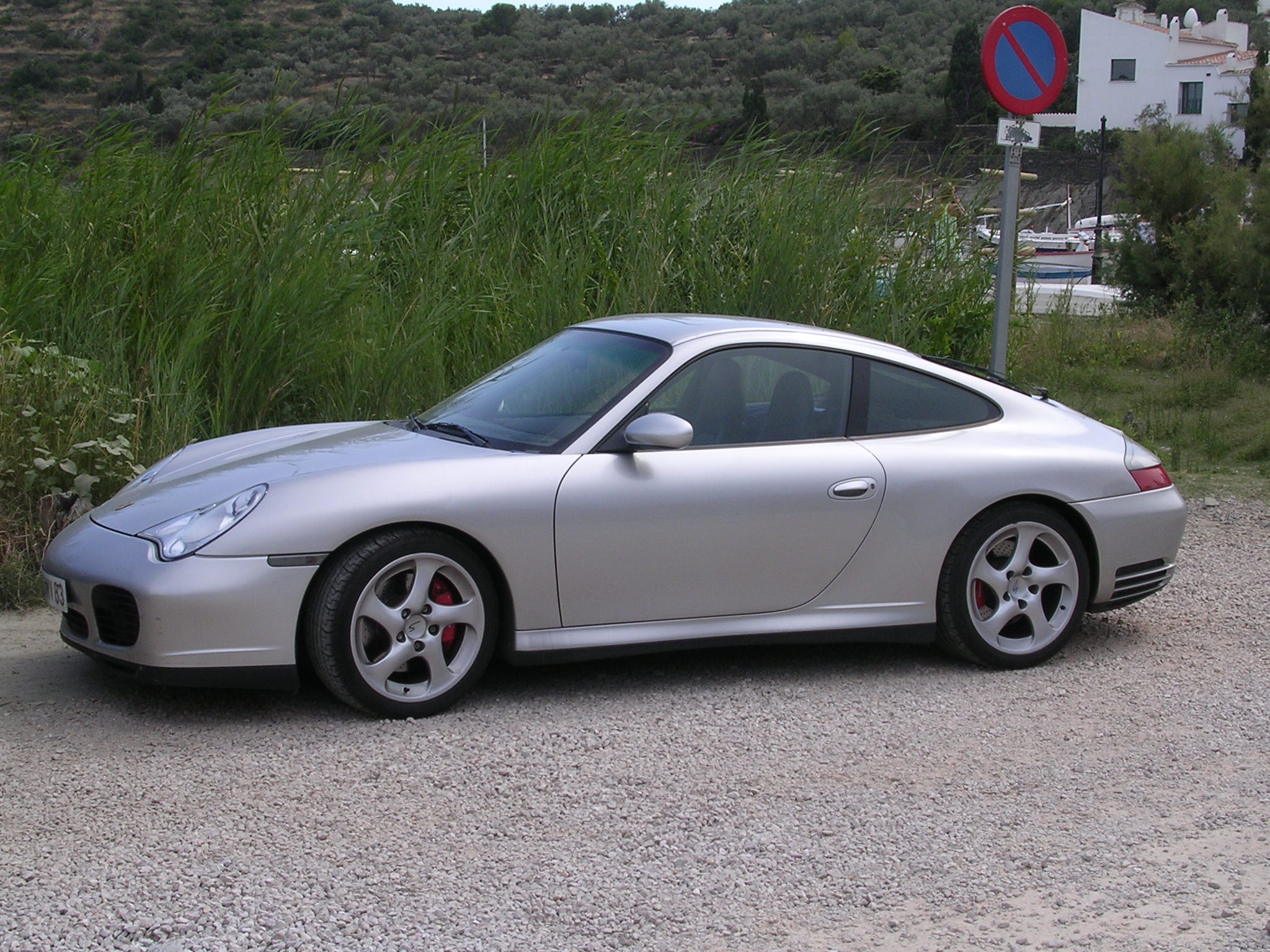 Porsche 996 Carrera 4S (taken in Cadaqués, Girona, Spain)..Porsche 996 Carrera 4S (taken in Cadaqués, Girona, Spain) hard top silver right side.